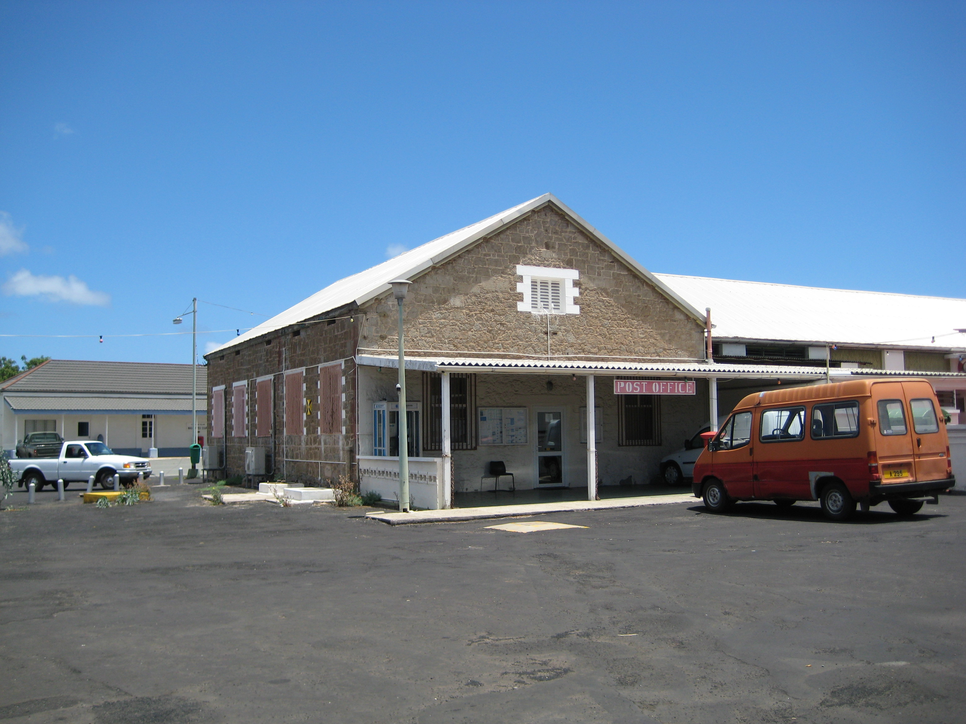 The Islands Post Office, Georgetown, Ascension.